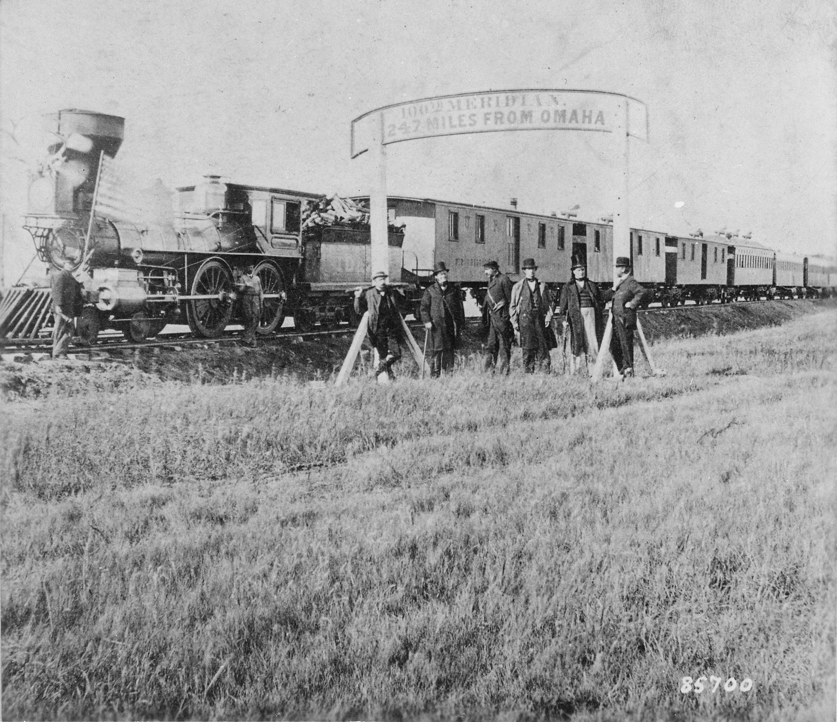 Directors of the Union Pacific Railroad on the 100th meridian approximately 250 miles west of Omaha, Nebr. Terr. The train in background awaits the party of Eastern capitalists, newspapermen, and other prominent figures invited by the railroad executives